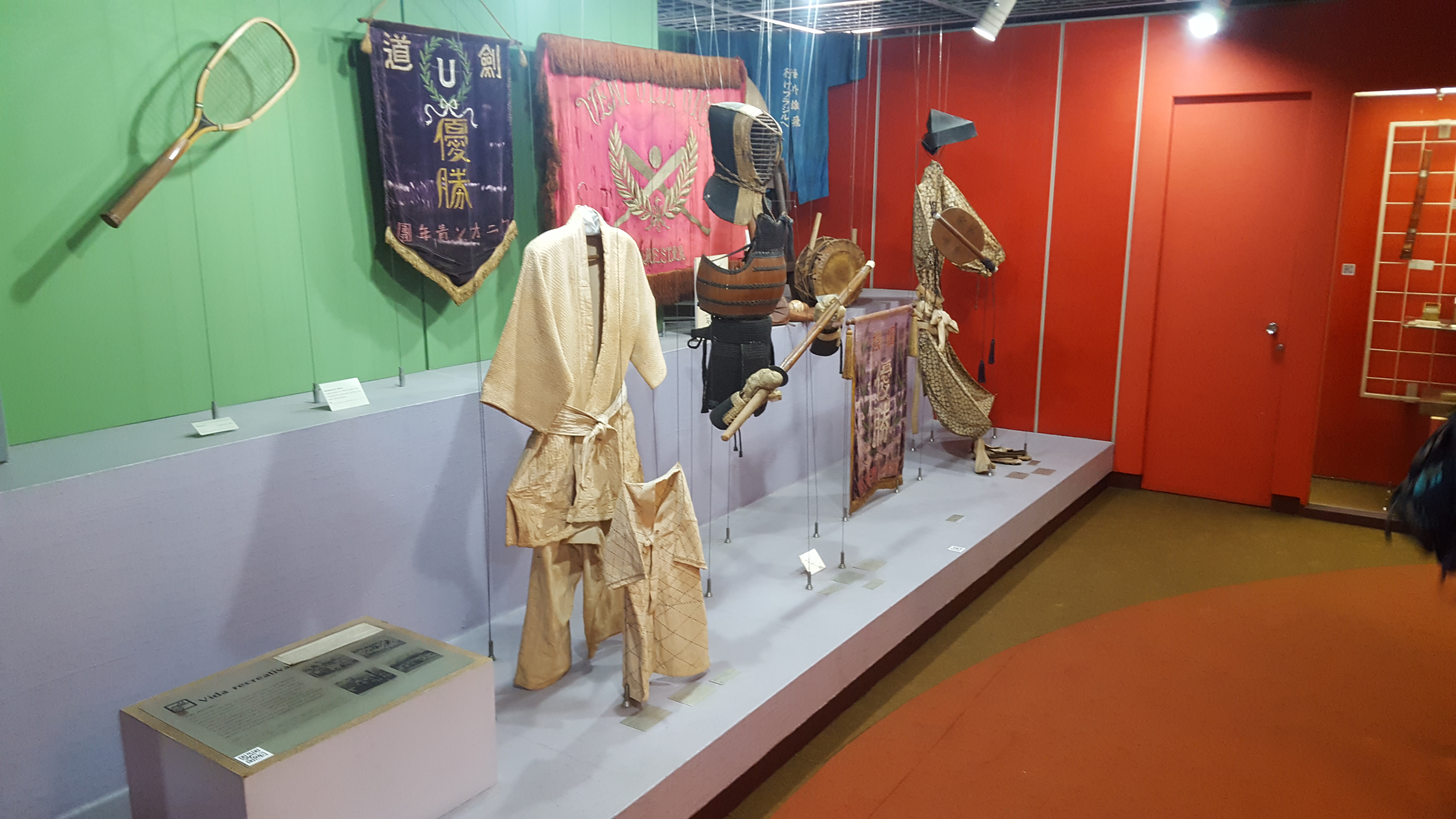 Vestuários típicos da época, no Museu Histórico da Imigração Japonesa no Brasil.